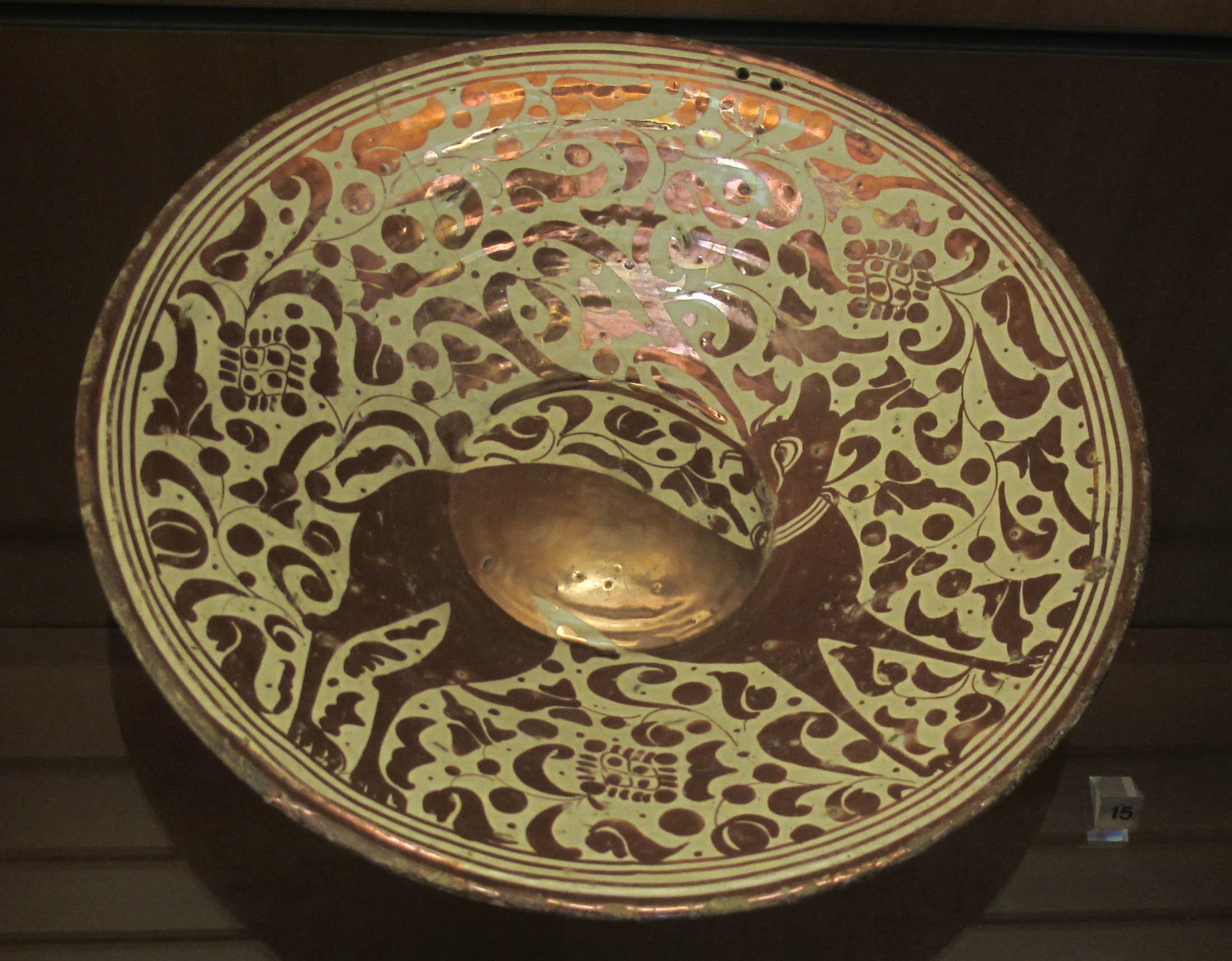 Hispano-Moresque ware. Catalonia, Reus (?). Lyon, Musée des Beaux Arts.